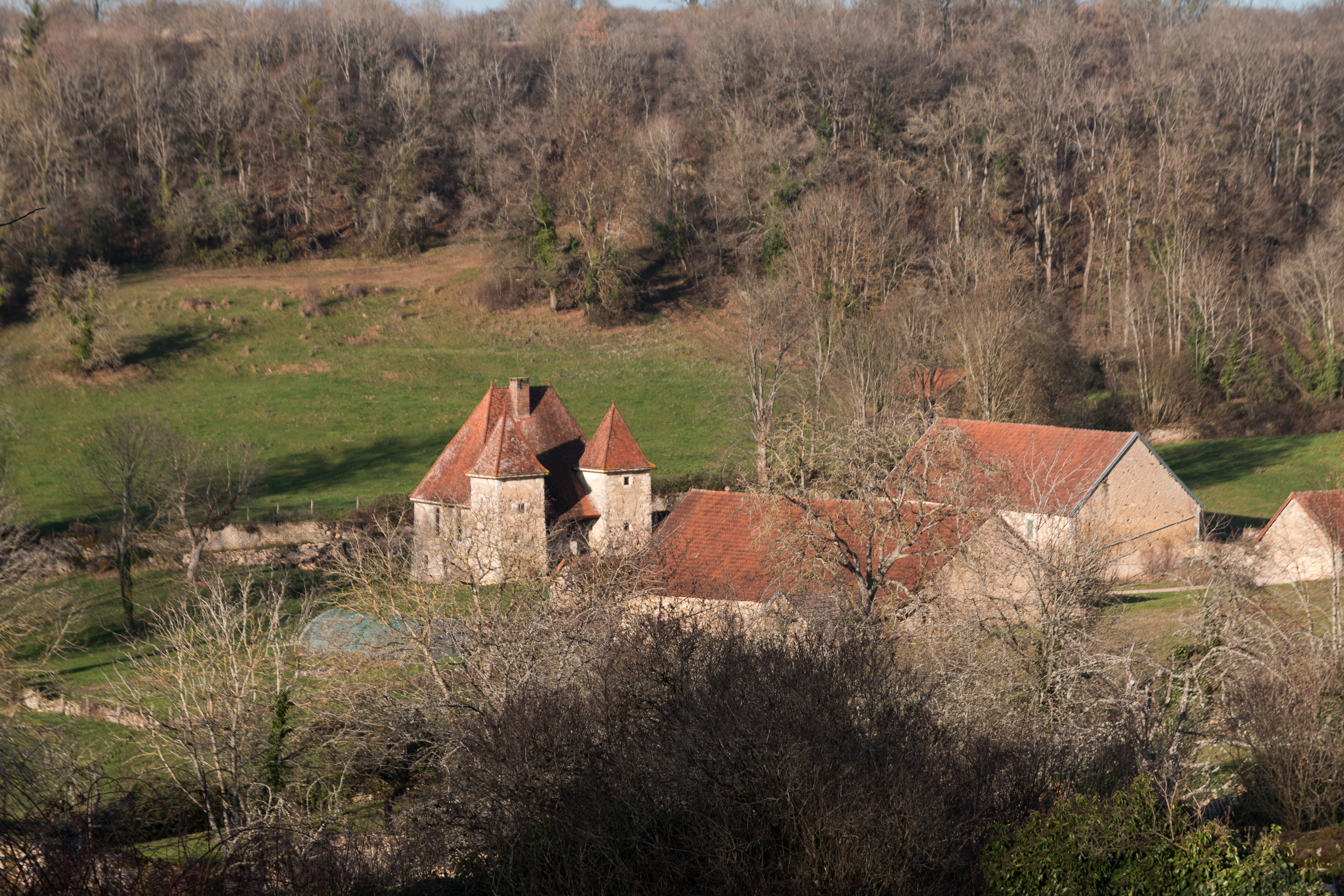 Manor of Gincey, looking N-N-W from Mont-Saint-Jean on its mount.